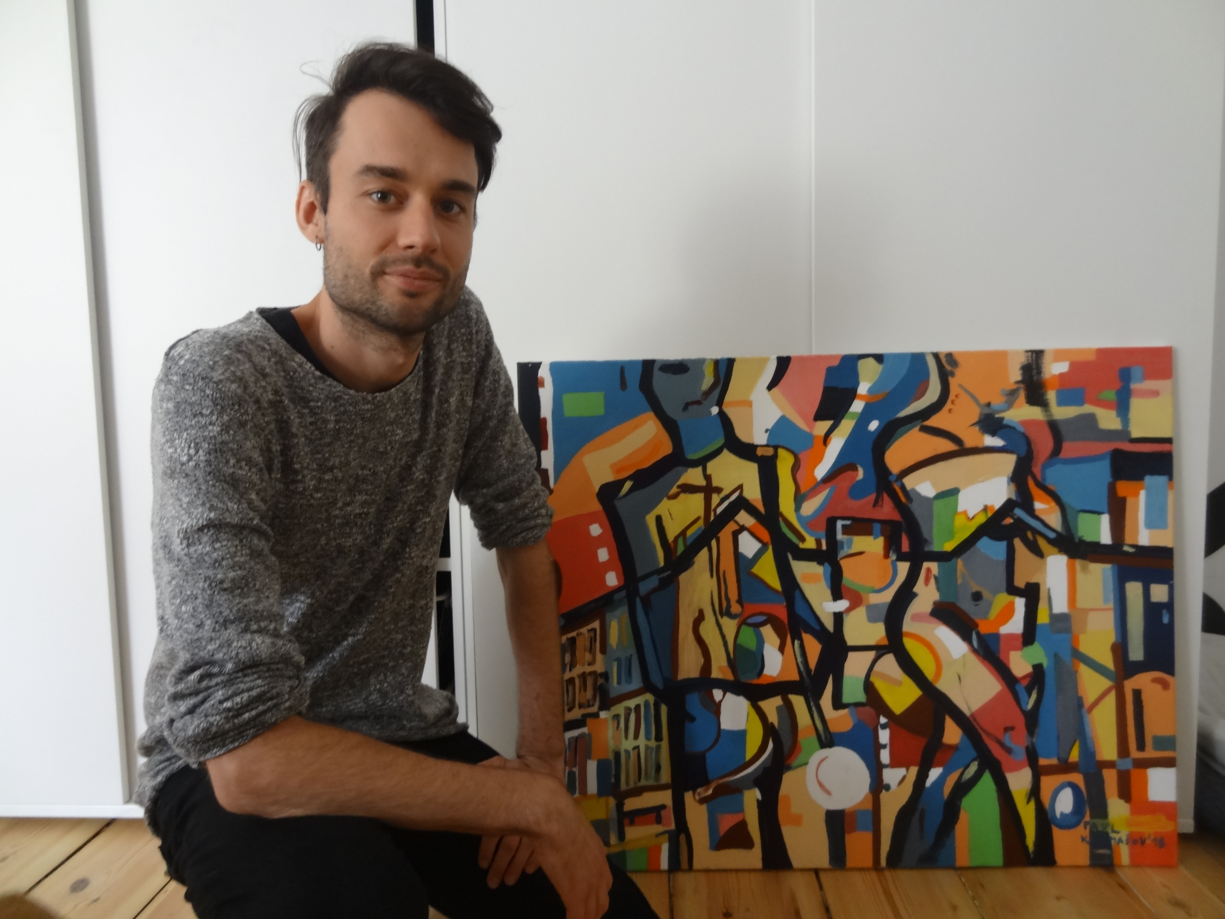 Estonian painter Paul Kormashov (born 1989) next to his painting "Walk through Berlin"